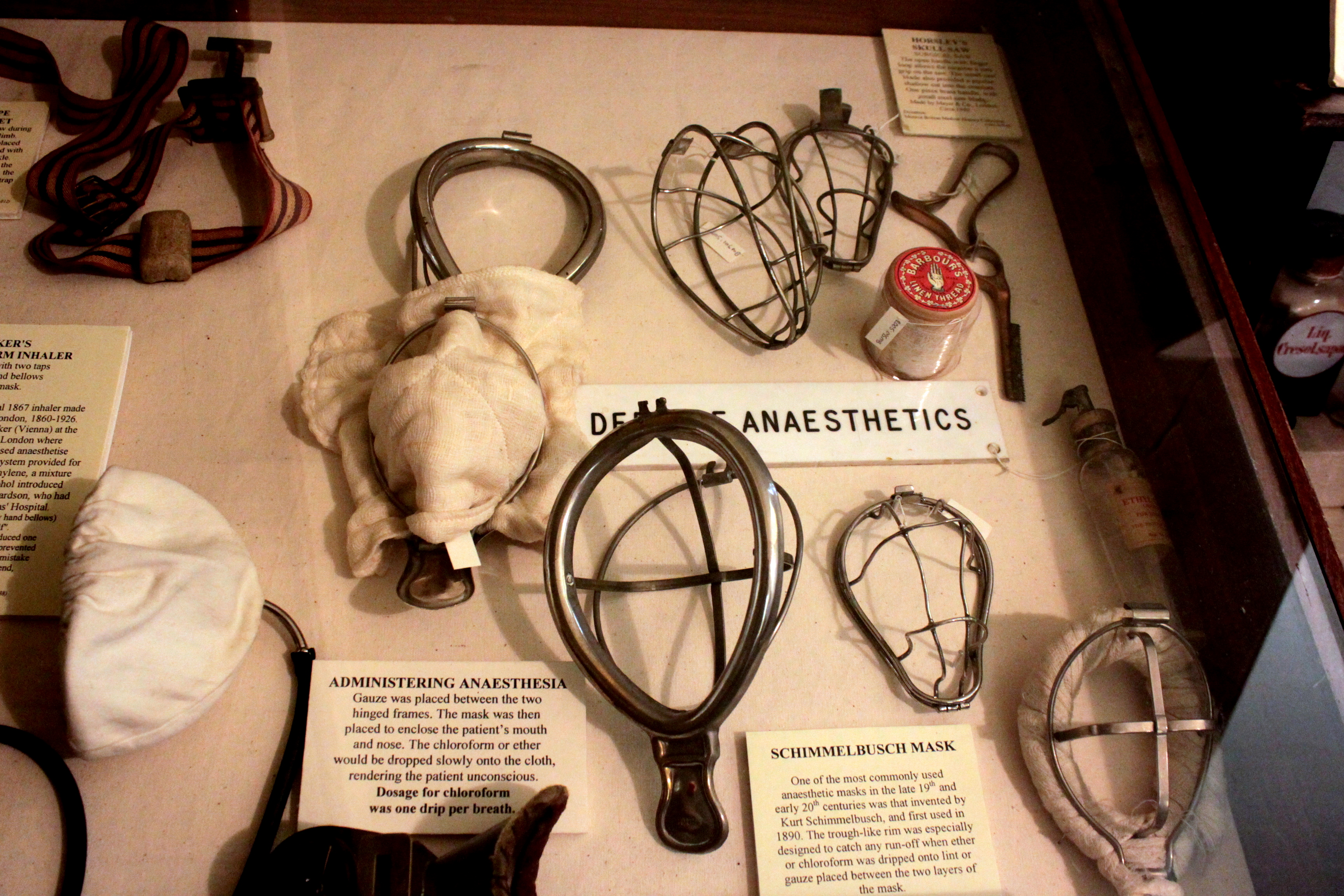 The Schimmelbusch was first invented in the 1890s. The cross wires were pulled outward from the frame. A wire hinged to the top of the mask behind the frame was then released by a clip. A piece of gauze was placed between the two 'arms'of the mask which was then closed to clip the cloth into tent shape. The extending handle was used by the anaesthetist to hold the mask over the mouth and nose of the patient. Chloroform was then dripped onto the gauze administering the anaesthesia to the patient. Dosage for chloroform was measured by administering one drip per second. Collection ID: 1990:137 This photo was taken as part of Britain Loves Wikipedia in February 2010 by Jenny O'Donnell.